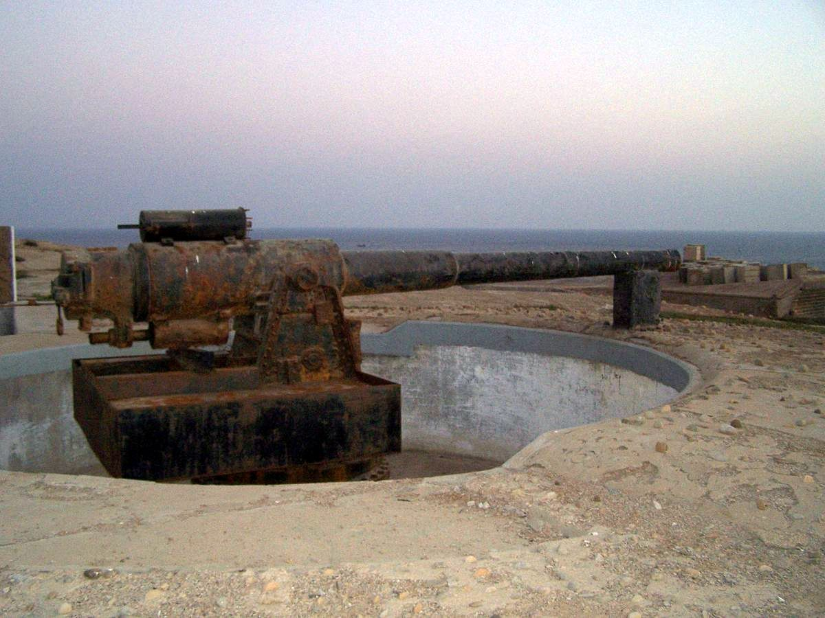 According to history, the Talpura Amirs placed some cannons at this fort which were brought in from Muscat. The British replaced those cannons with longer range guns....but till date not a single round is fired from this military base.